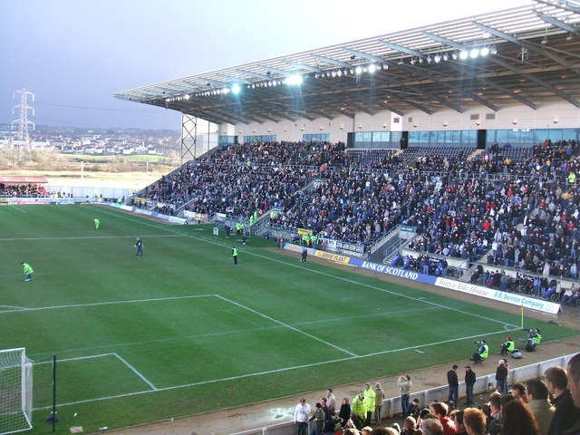 Falkirk Stadium - main stand After departing the traditional (but long out-dated) town centre confines of Brockville Park, Falkirk FC are now residents in this impressive arena on the edge of town. Two sides are occupied by gleaming modern grandstands which are bizarrely juxtaposed with two sides with shallow (4 or 5 rows) of tarpaulin covered temporary stands. (this match ended Falkirk 1 Aberdeen 2 which pleased the Geographer)